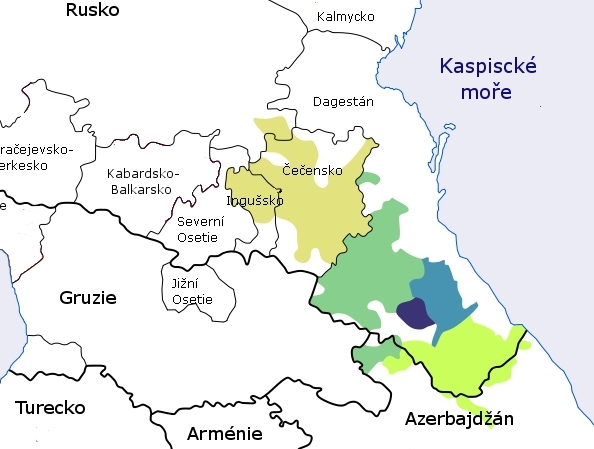 Map of northeastcaucasian languages - cz